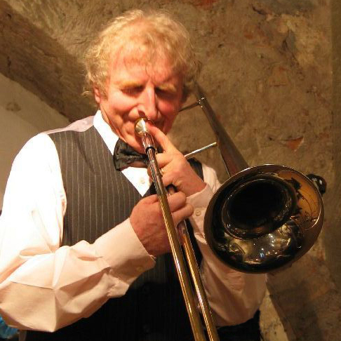 Lemi Gsteiger live in Bern, Switzerland in 2005